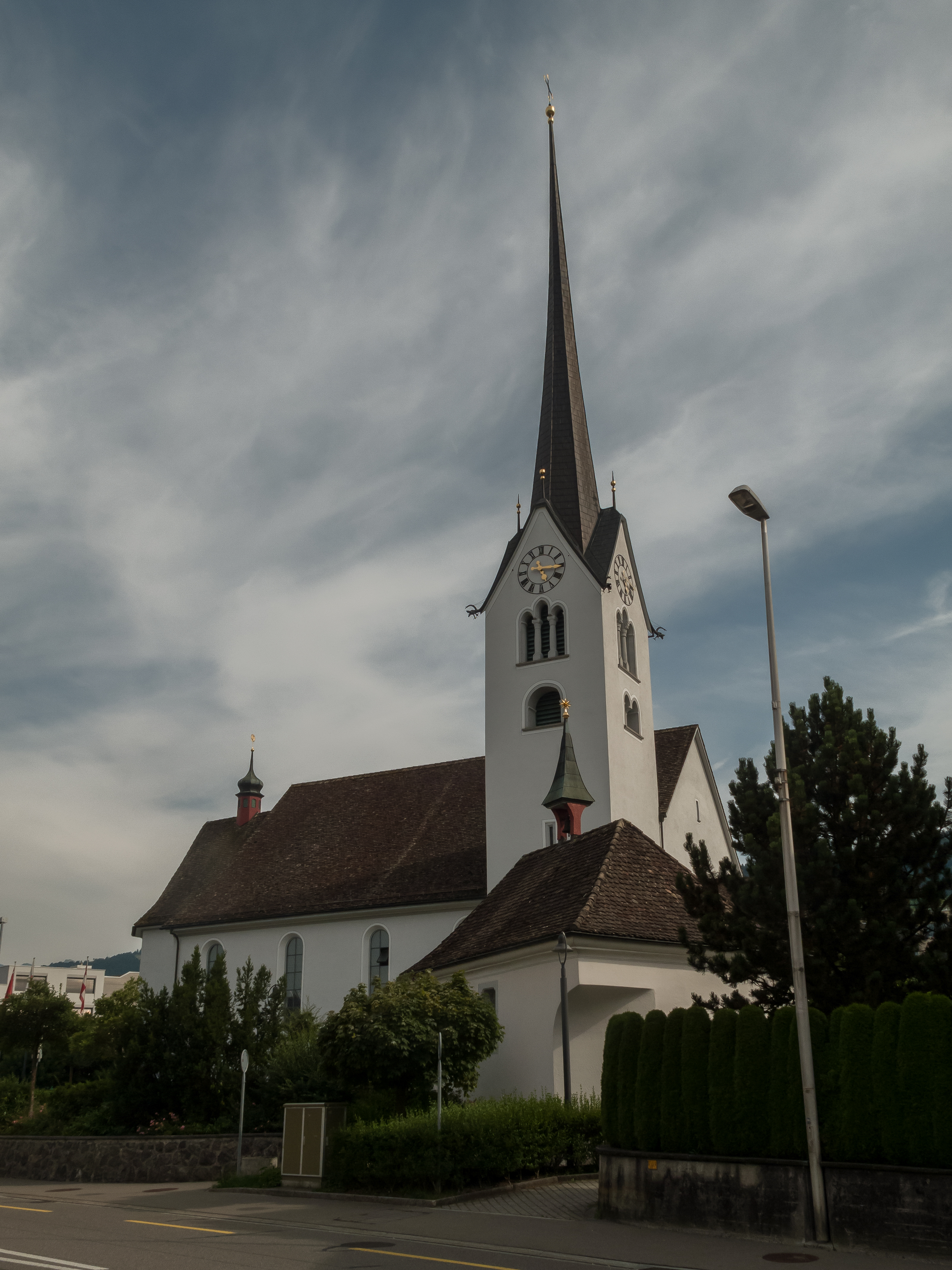 Altendorf, church: Pfarrkirche Sankt Michael